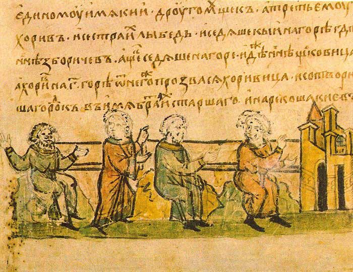 Page of the Radziwiłł Chronicle, illustrated with Kyi, Shchek, Khoryv and Lybid